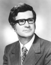 Former delegate to the United States Congress from the Virgin Islands Ron de Lugo.